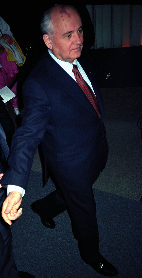 Mikhail Sergeyevich Gorbachev visiting Vancouver's Science World.